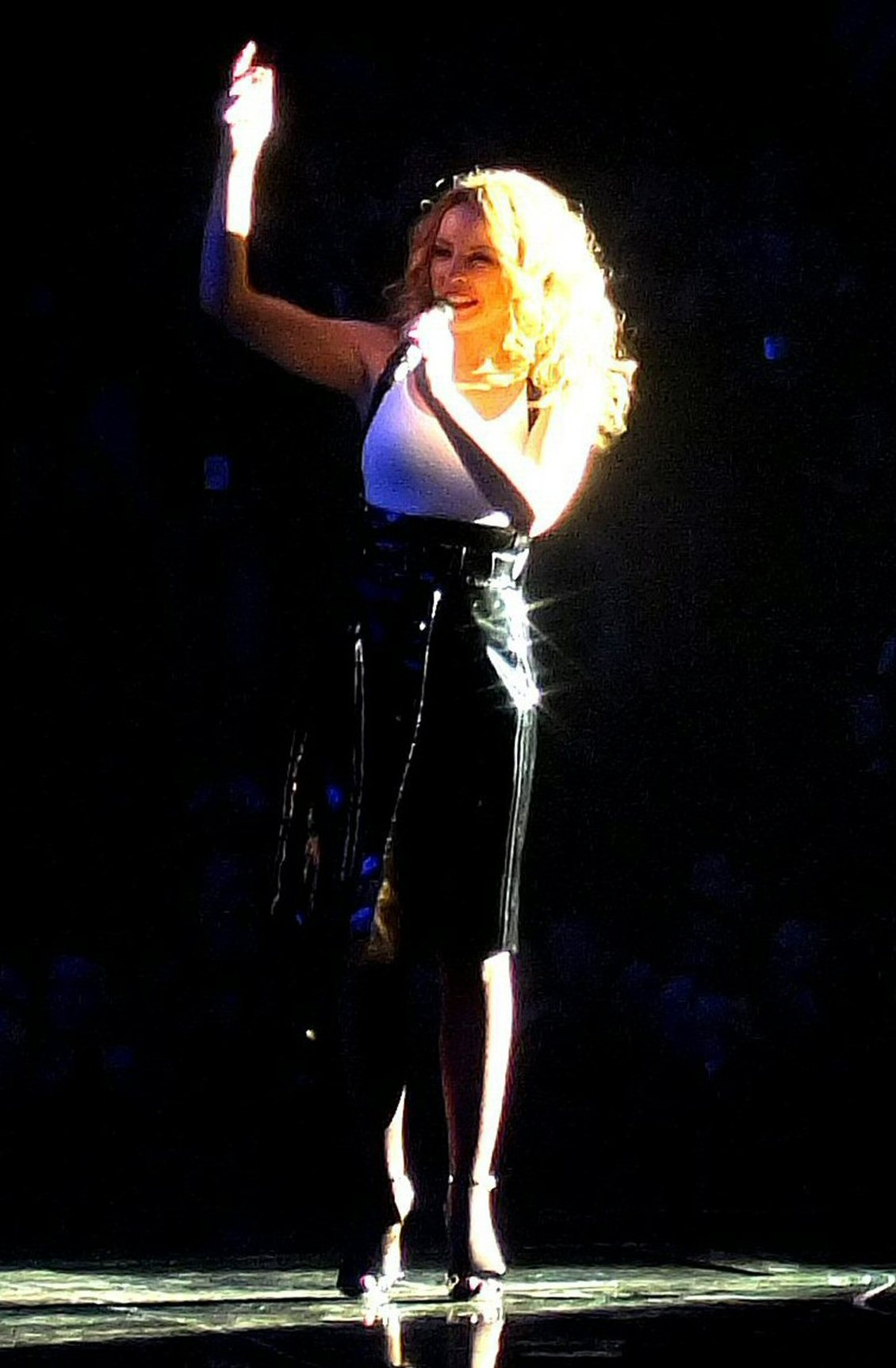 Kylie Minogue performs her Kiss Me Once Tour at Bercy, Paris, November 2014